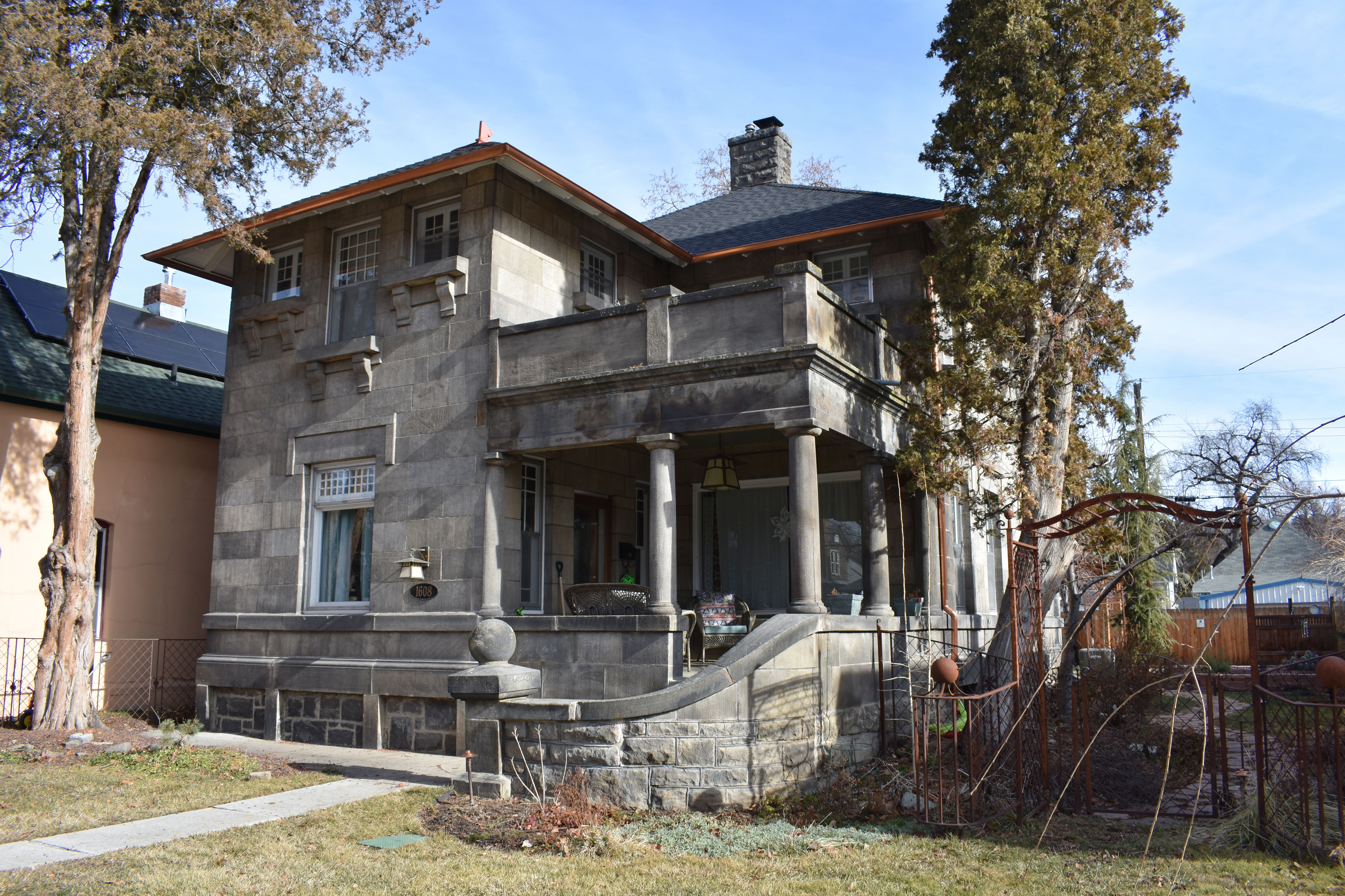 The Daniel F. Murphy House in Boise, Idaho, is listed on the National Register of Historic Places.